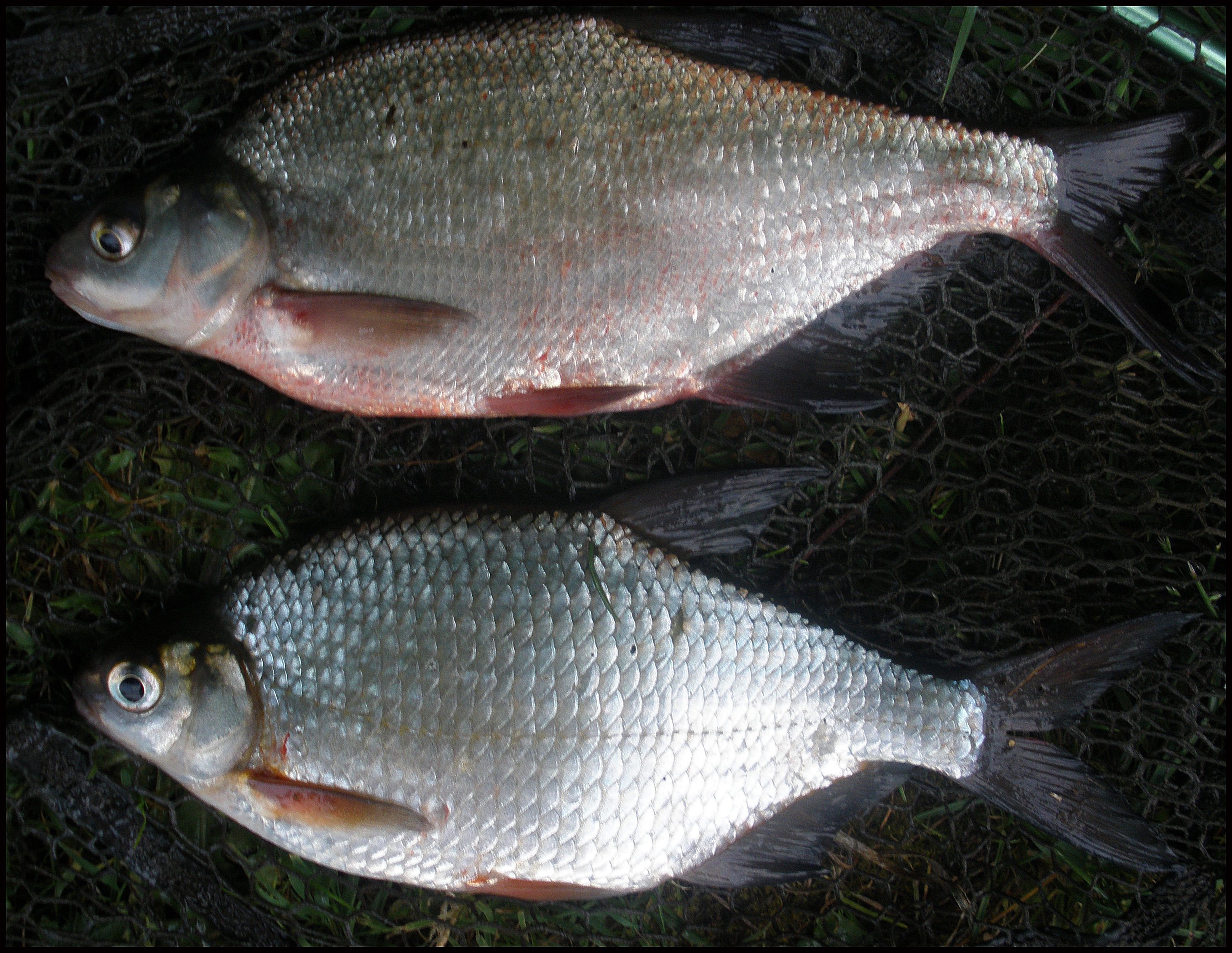 A comparison of an immature bronze bream (Abramis brama) and a mature silver bream (Blicca bjoerkna)